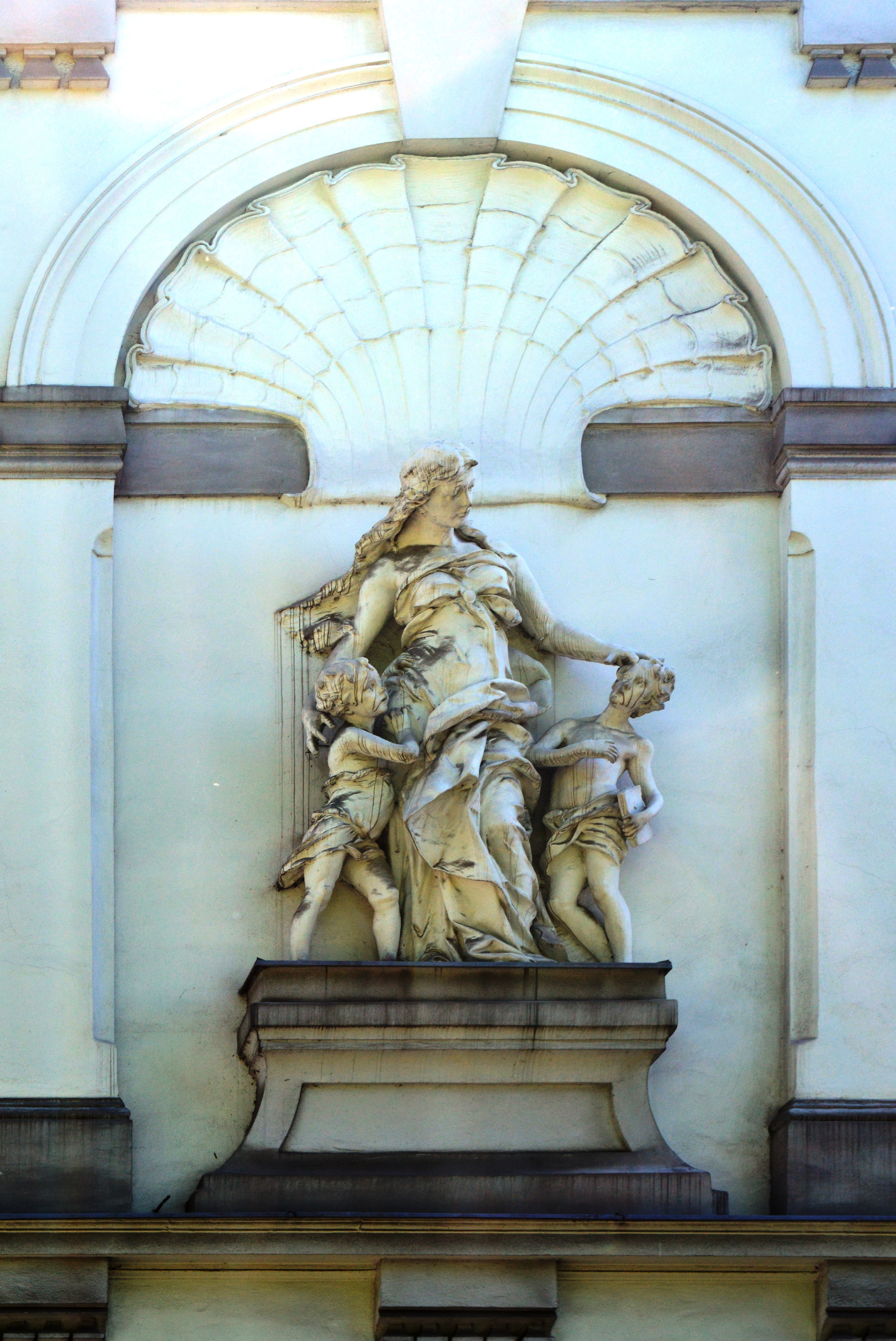 Statue at former Lutheran Church, now Catholic Church of the Holy Trinity, in Cieszyn.